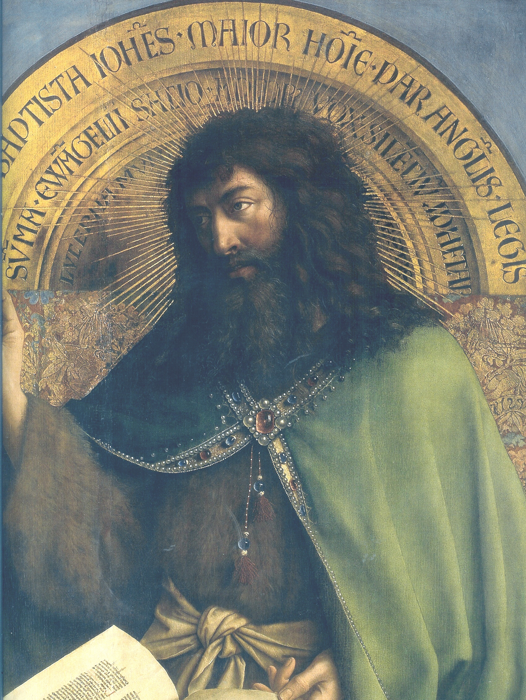 detail: John the Baptist (front panel)